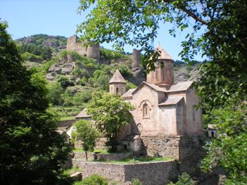 Picture of the Sapara monastery